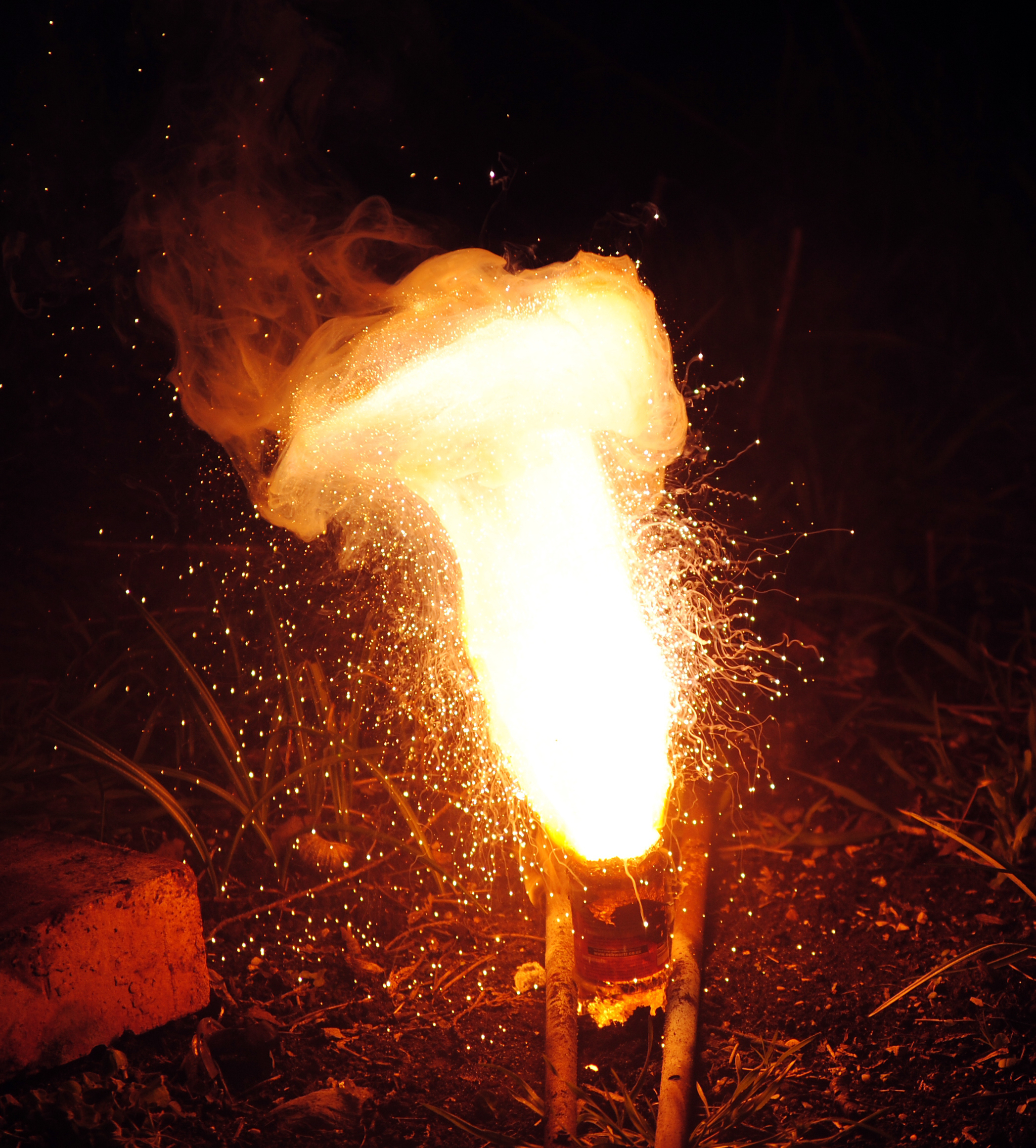 An aluminothermic reaction with Iron(III) oxide; as known as a thermite reaction. The mixture was ignited in a glass jar using a length of Magnesium ribbon. The sparks flying outwards are globules of molten iron, trailing smoke in their wake.